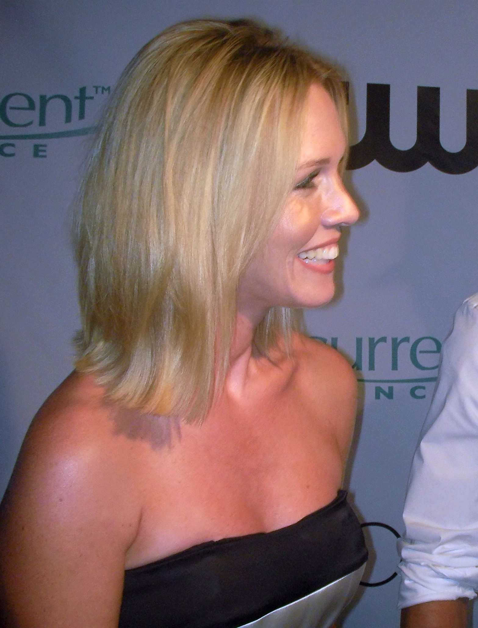 Premiere party for CW's "90210," Malibu, California - Aug. 23, 2008